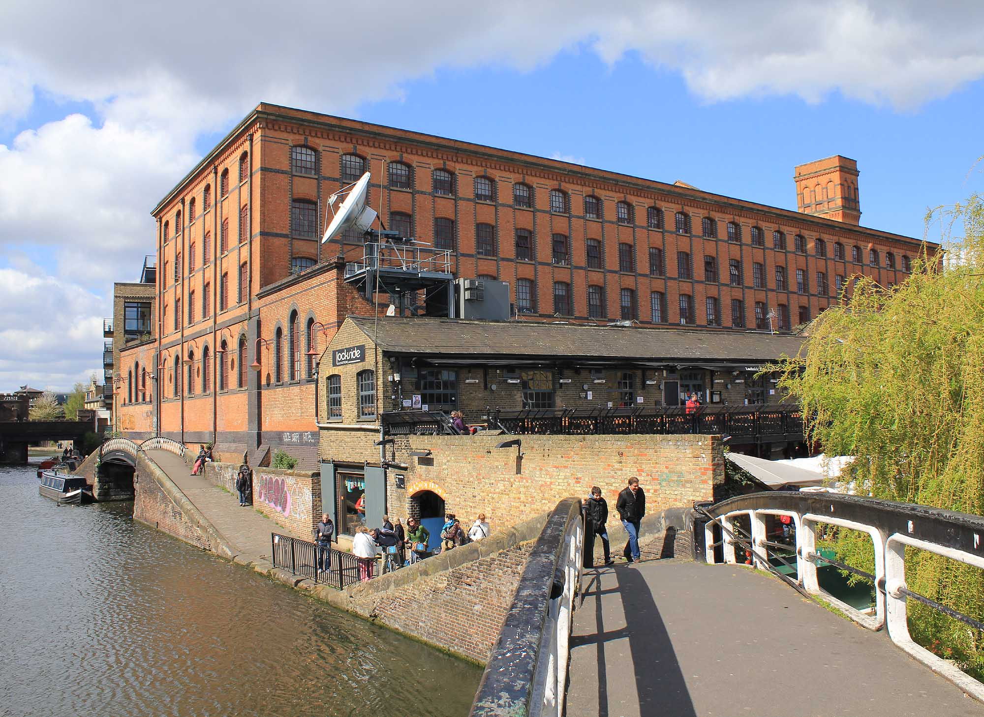 The Interchange building near Hampstead Road Locks on the Regents Canal, England, once part of a huge rail to canal interchange, but now the offices of Associated Press Television News